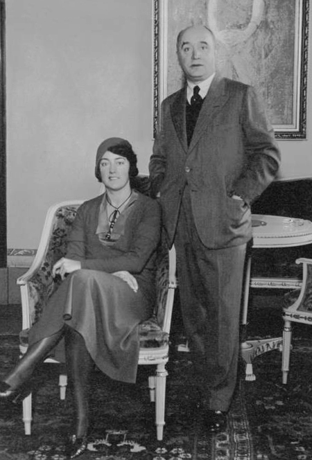 Nobel laureate Friedrich Bergius with wife at Grand hotel, Stockholm, the day before the Nobel lecture [1]